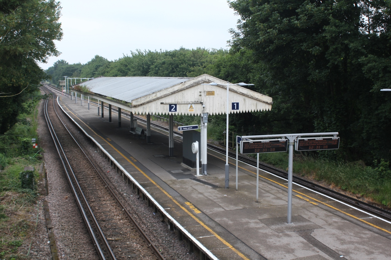 The island platform at Sunnymeads station, looking north-westwards towards Windsor & Eton Riverside.